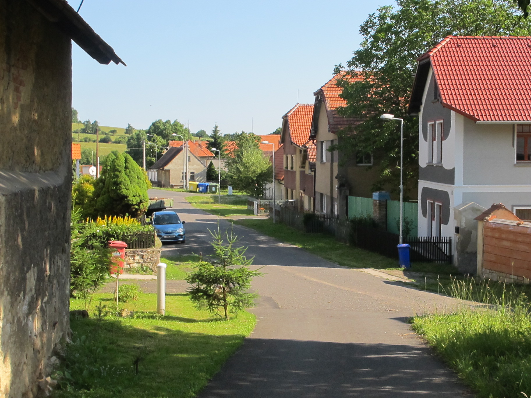 Village square in Úlovice